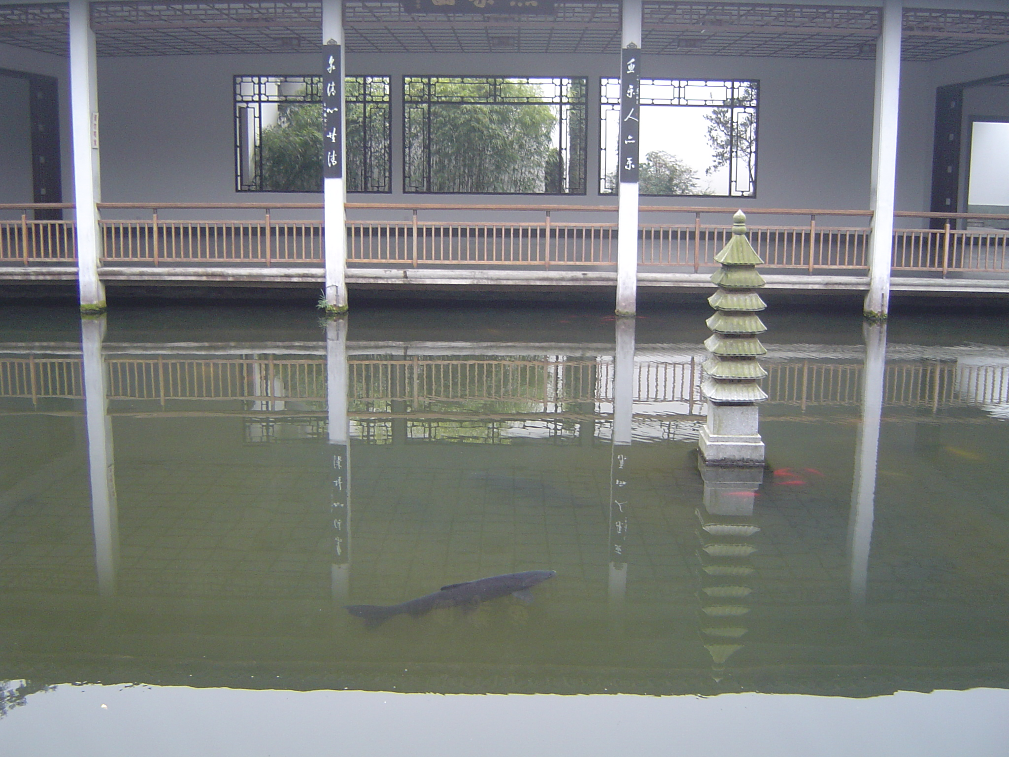 Fish at Yuquan (Jade Spring) in Hangzhou, China. Now located in the Hangzhou Botanical Garden, the spring is famous for its large fish. Photo taken by Sumple on 14/12/2006. As a courtesy, and entirely voluntarily, please notify me if you change this image or its description.